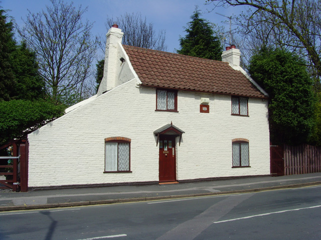 Bridge End Cottage, Hull, East Riding of Yorkshire, England.Dating from the late 18th century, this house on Inglemire Lane is in sharp contrast to the surrounding, more recent properties. The bridge in question is presumably 675266 or its predecessor.